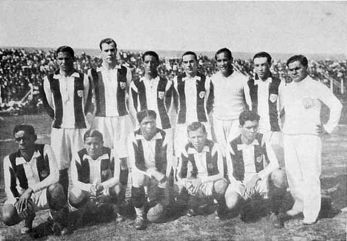 Peru national football team at the 1929 Campeonato Sudamericano.